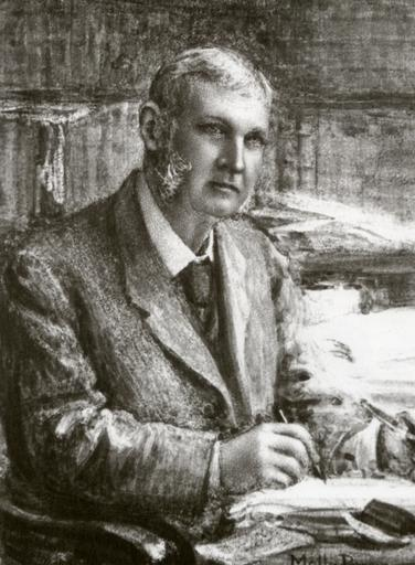 Photograph of Sir William Henry Power, 5th Chief Medical Officer for England (1900–1908)